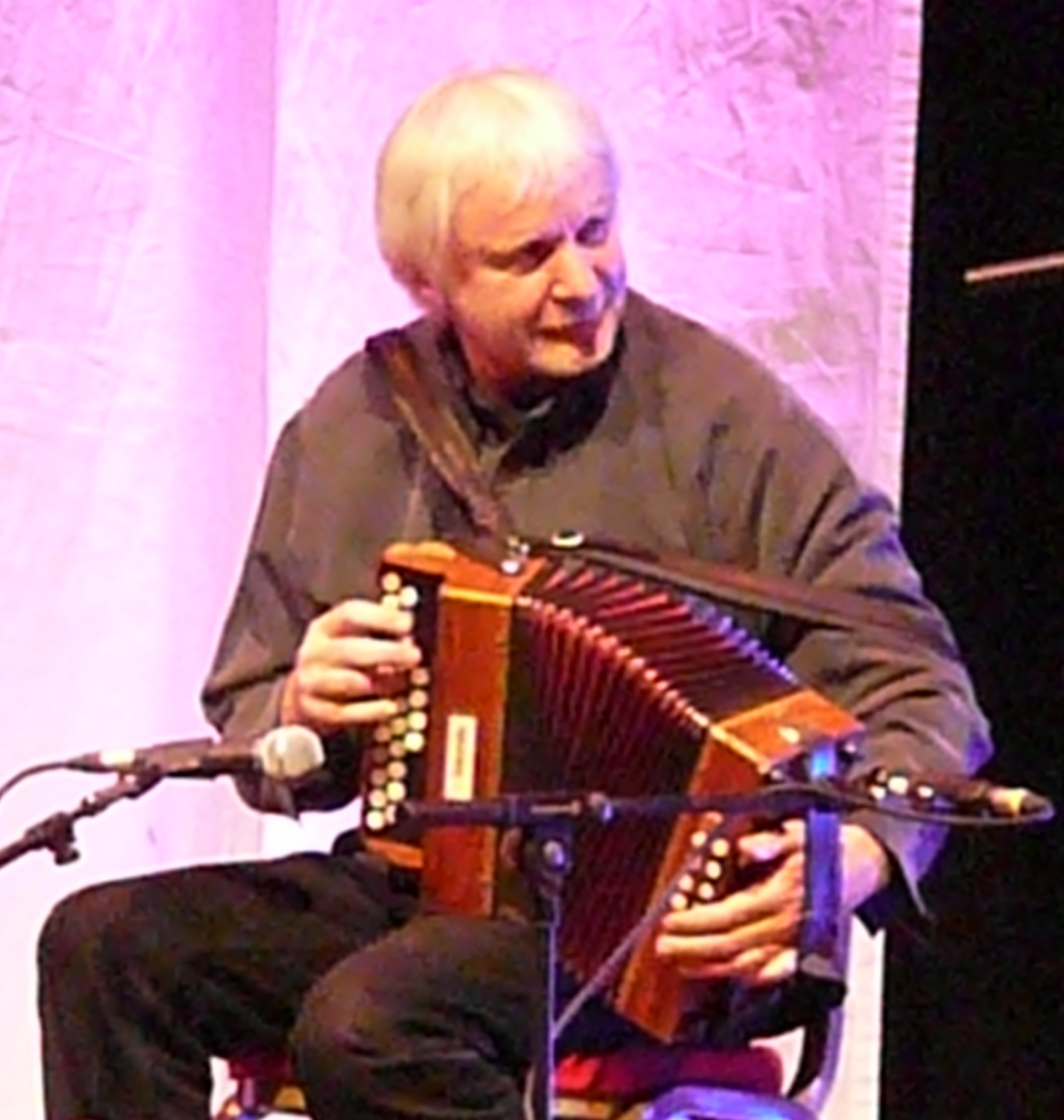 Máirtín O'Connor playing as part of Cara Dillon's backing band at the Bristol Folk Festival on 6 May 2012